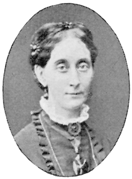 Image scanned from the book "Svenskt Porträttgalleri XX - Arkitekter, Bildhuggare, Målare m.fl. " ("Swedish Portrait Gallery XX - Architects, Sculptors, Painters, ") published 1901